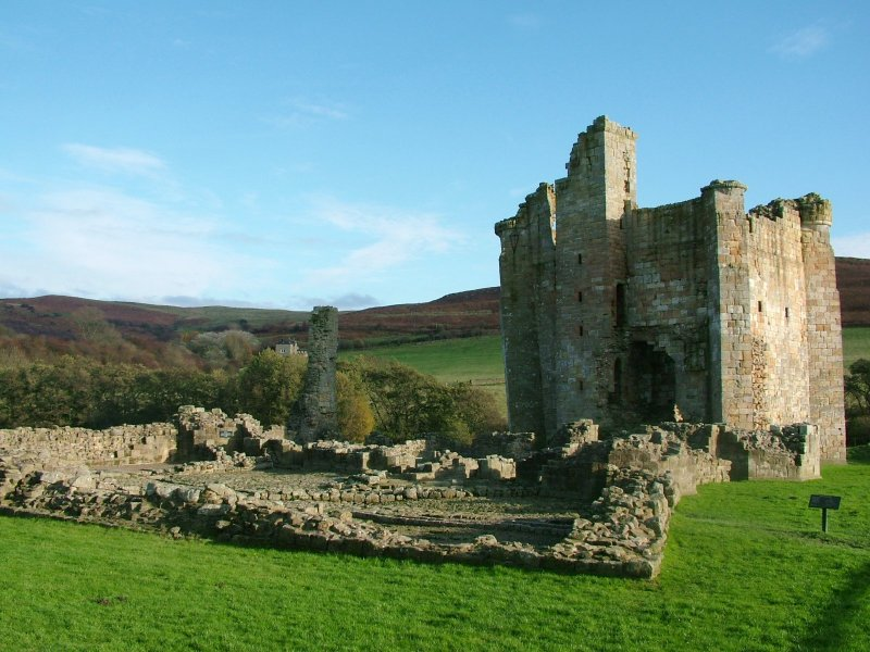 Edlingham Castle - Northumberland - England - 2004-10-31.